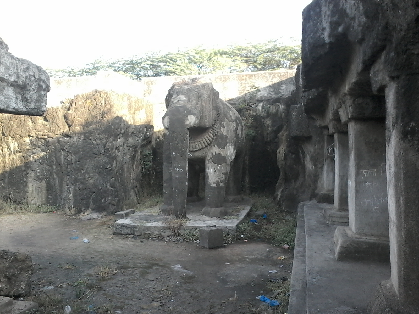 Inside Shivleni Caves, Ambajogai - An Elephant carved in natural site stone